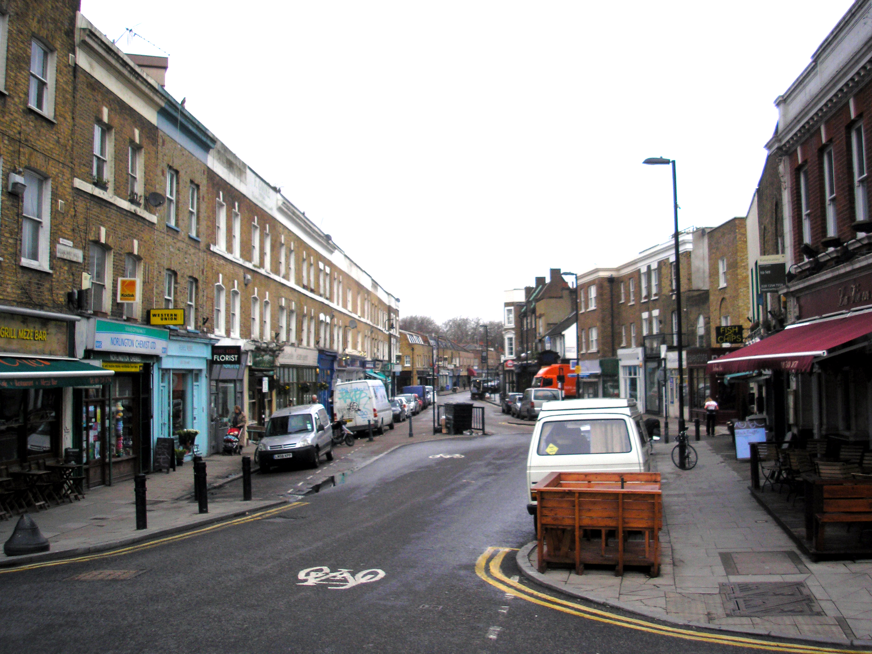 Hackney: Broadway Market Looking north from the western end of Andrews Road, by Cat & Mutton Bridge. This street is closed to motor vehicles all day every Saturday to allow the market to take place.